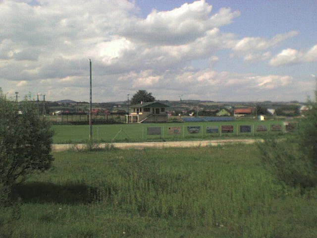 Stadium in Podegrodzie (Lesser Poland Voivodeship)